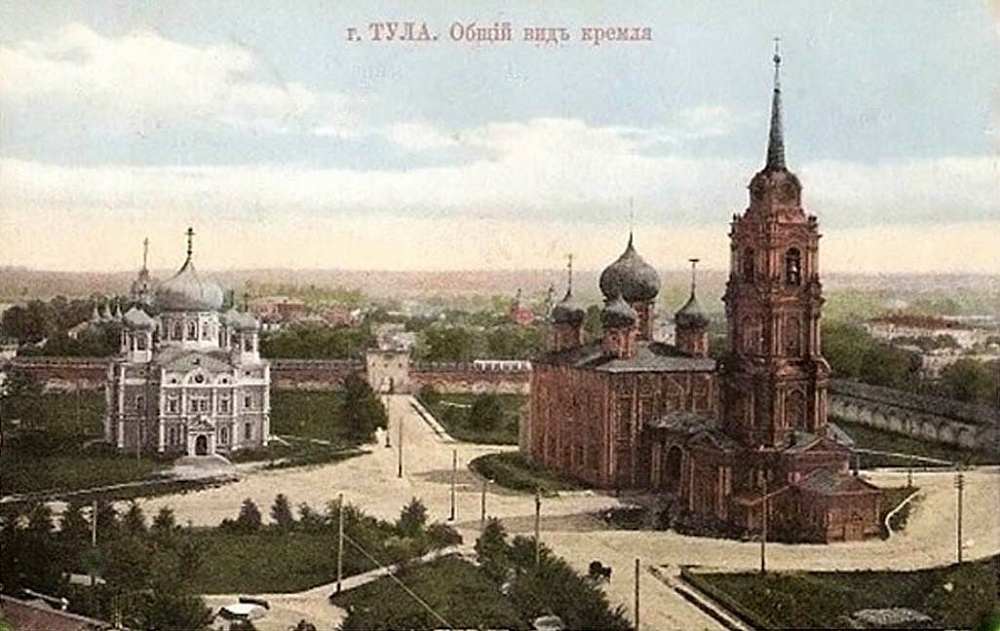 Church of the Dormition at the Kremlin (Tula, Russia)